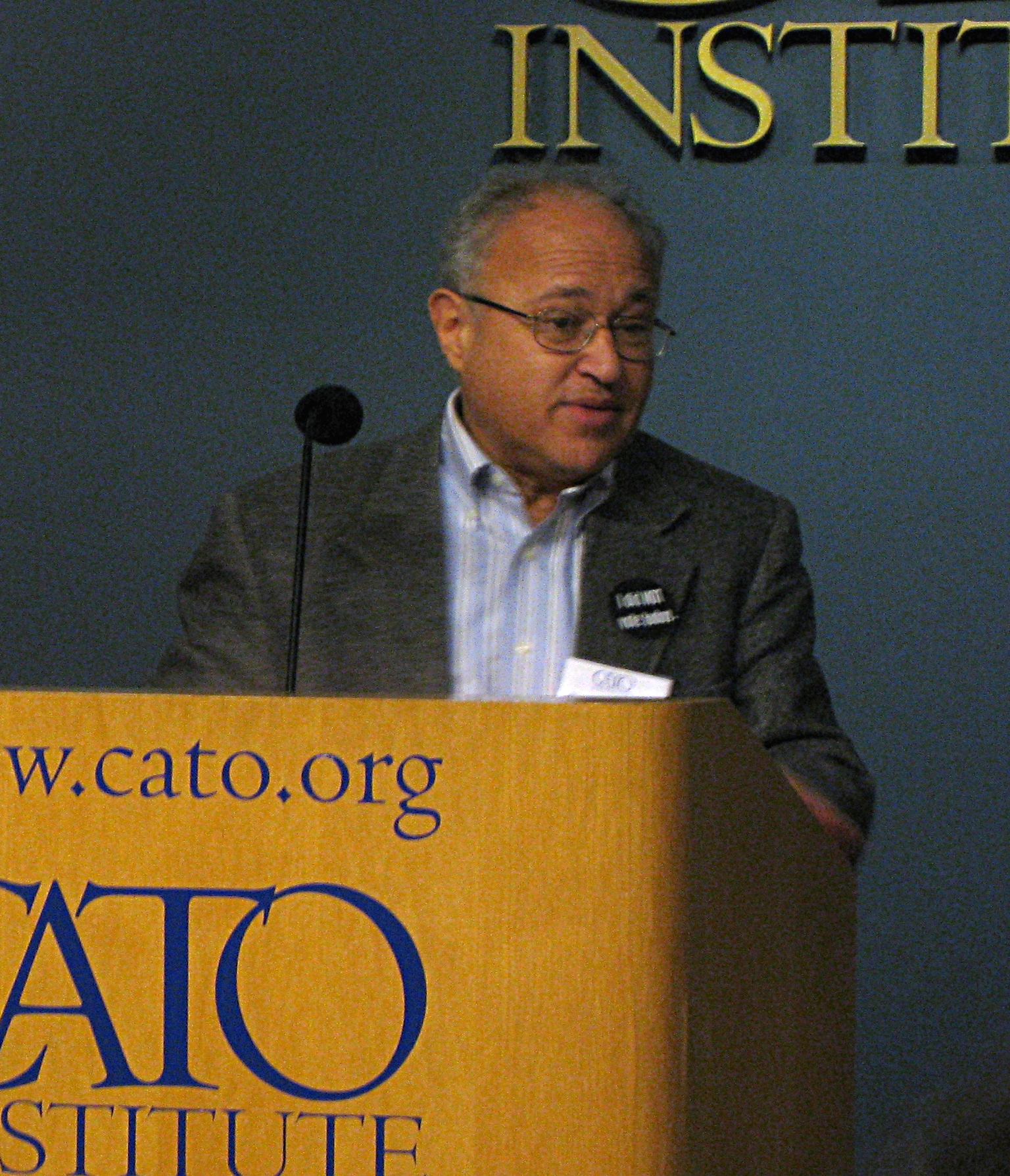 David D. Friedman, speaking about his book Future Imperfect at the Cato Institute in Washington, DC, 6 Nov 2008.